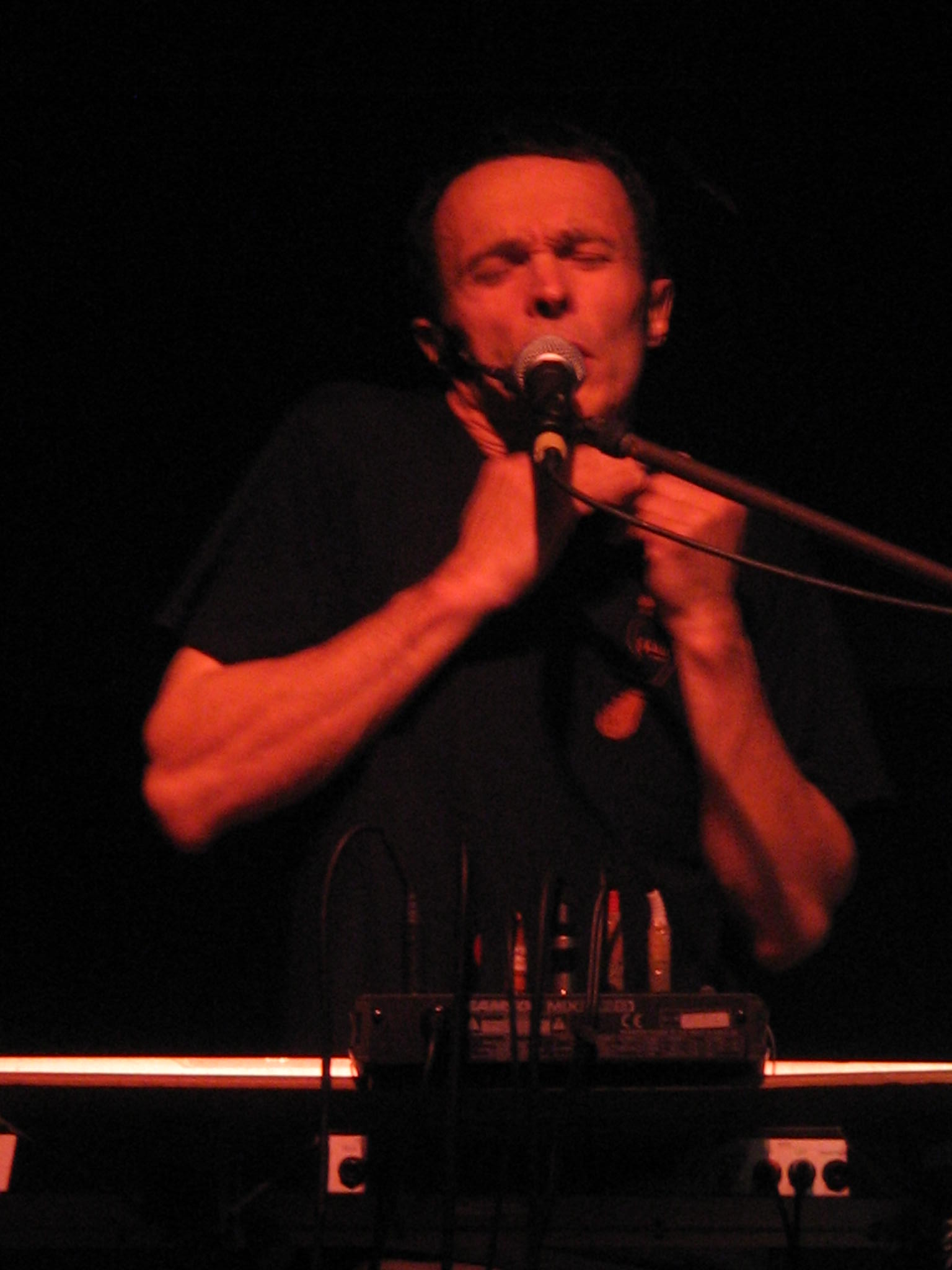 French performer, singer and keyboardist Jean-Louis Costes during a live performance in Dijon, France, june the 5th, 2009.